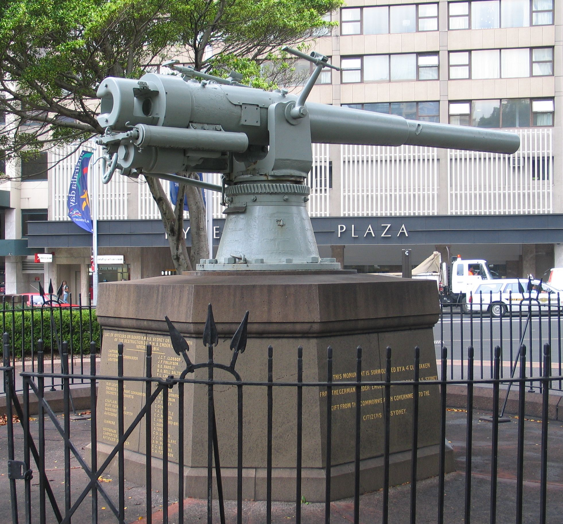 A 105 mm gun from the German cruiser Emden in Hyde Park, Sydney, NSW, Australia.